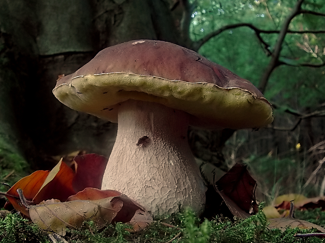 Porcini at Tillegem Bos, Brugge - Belgium.